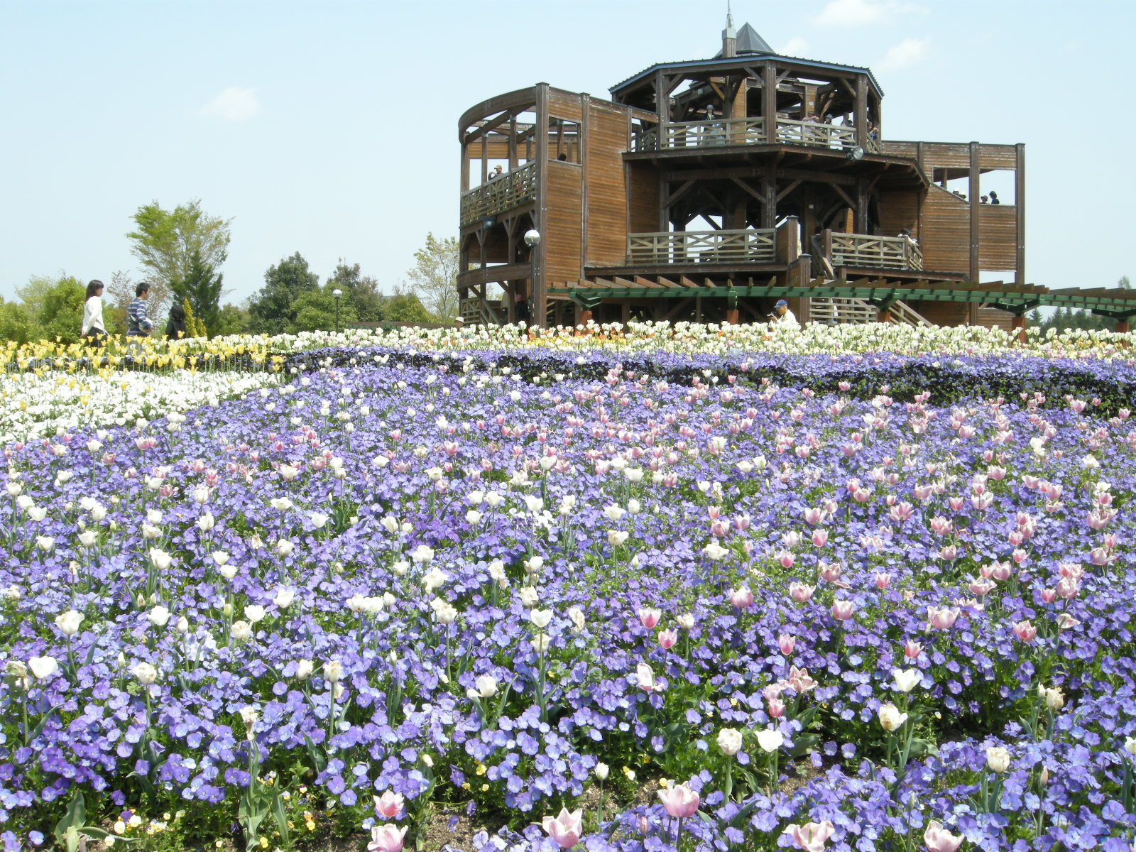 Bihoku-kyuryo Park in Shobara, Hiroshima pref., Japan.